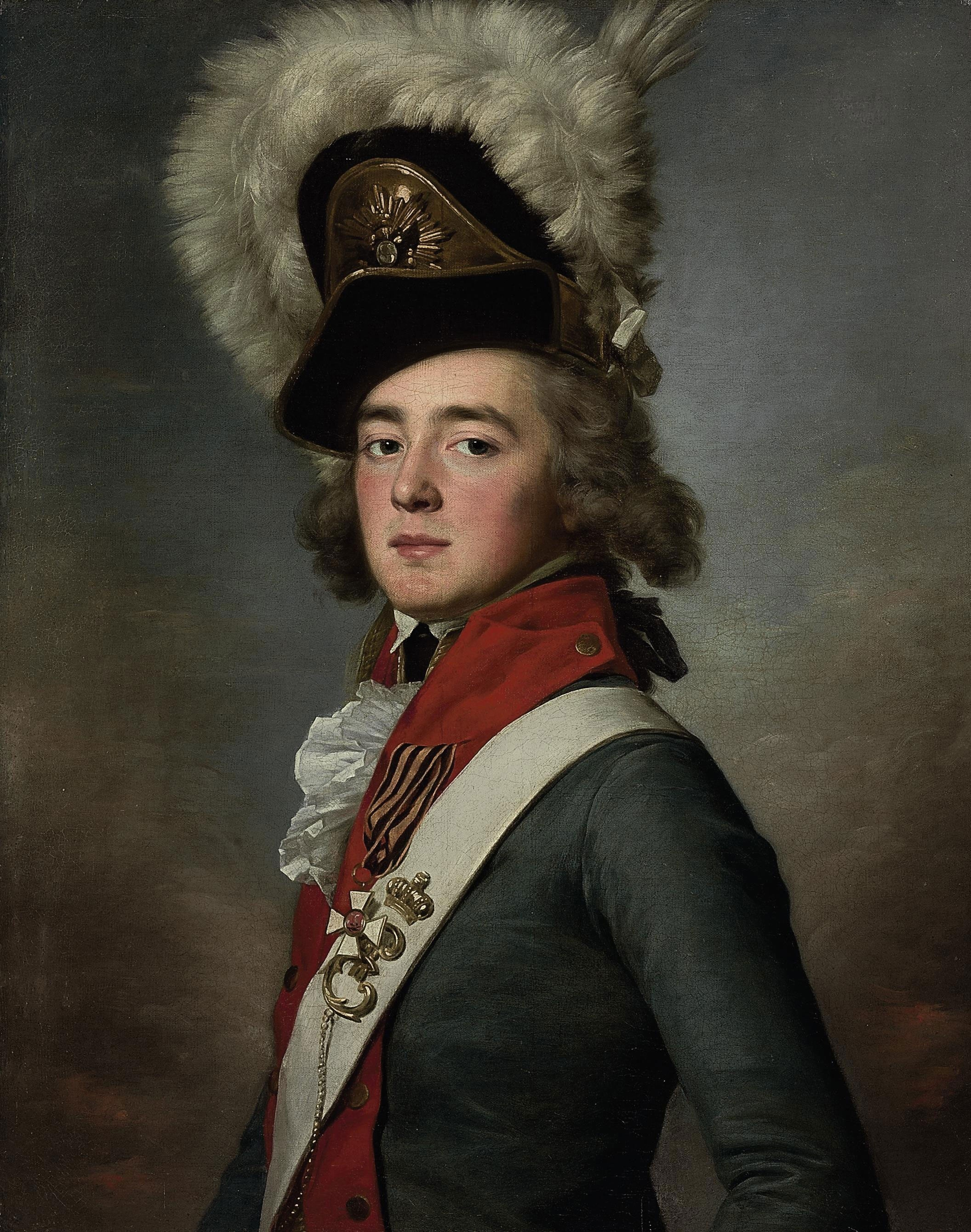 Portrait of Valerian Zubov (1771-1804)